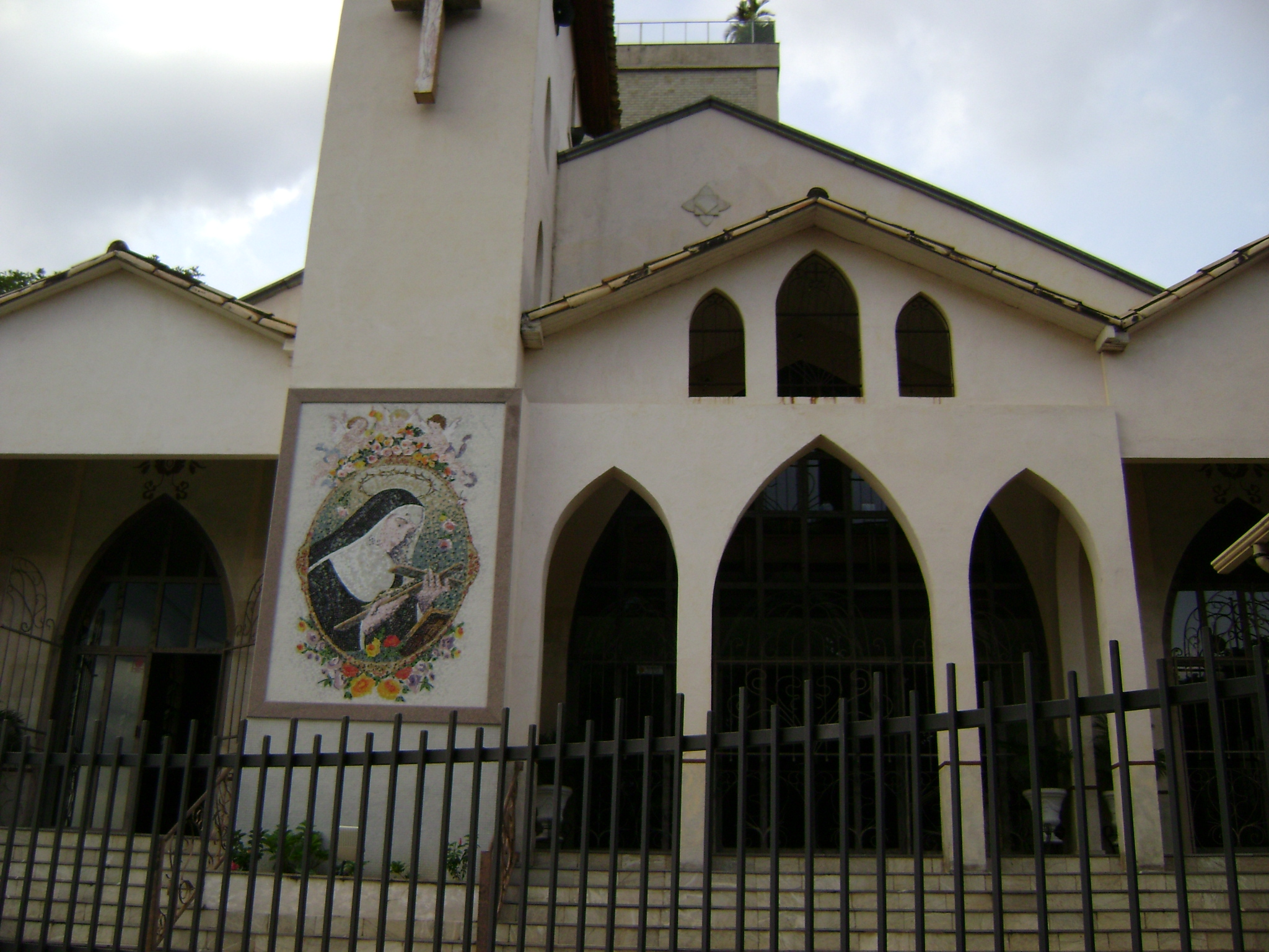 Igreja Santa Rita, no bairro São Pedro, Belo Horizonte.